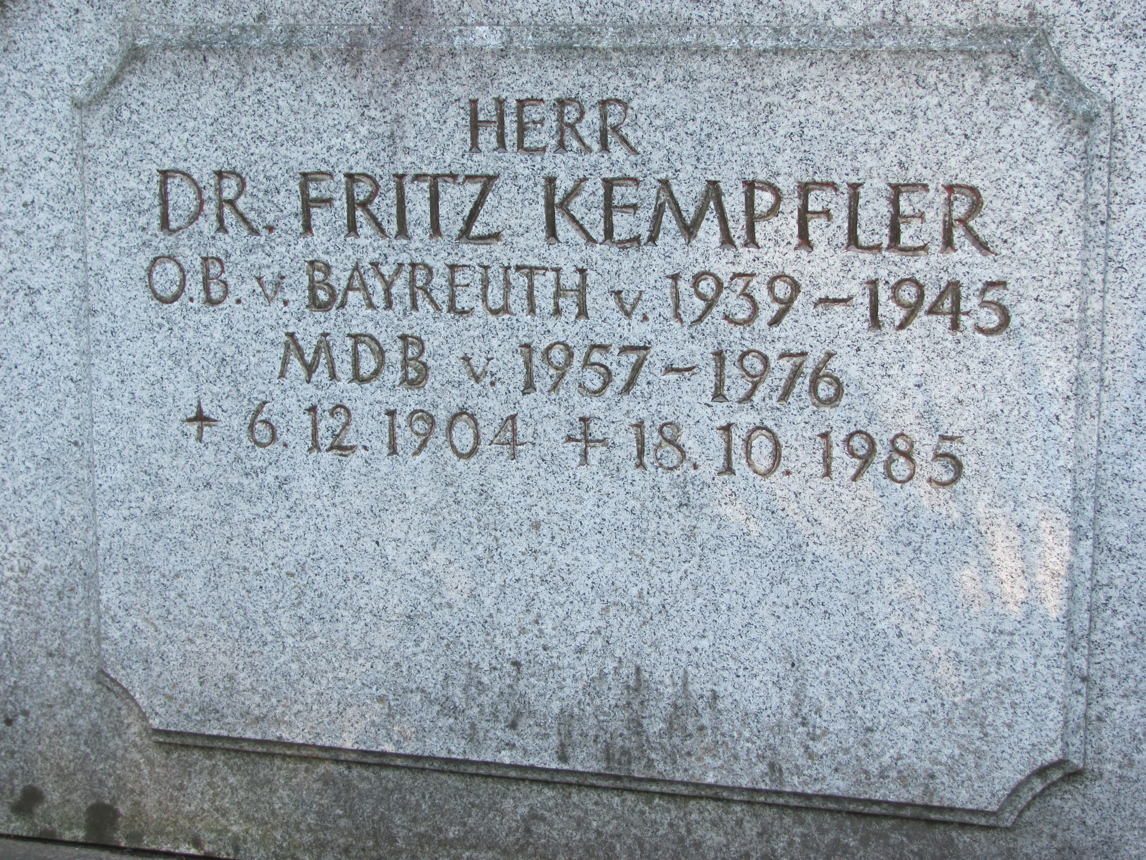 Gravestone of Fritz Kempfler, Lord Mayor of Bayreuth, Member of Parliament - Cemetary of Eggenfelden-Gern